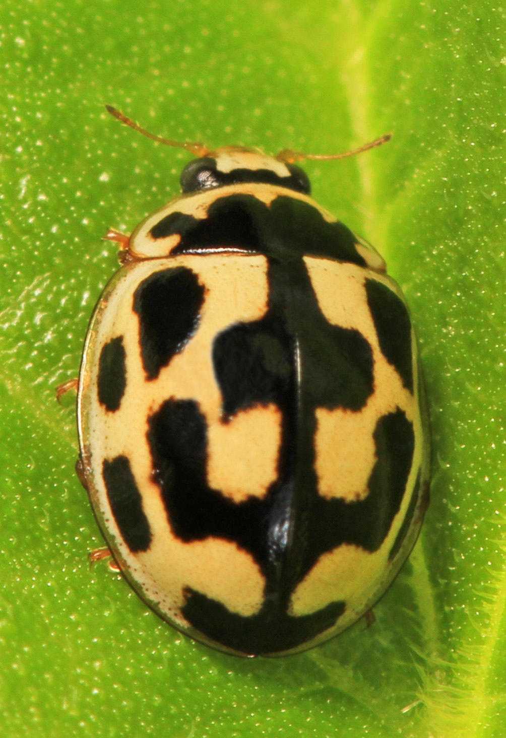 Fourteen-spotted Lady Beetle - Propylea quatuordecimpunctata, Woodbridge, Virginia.